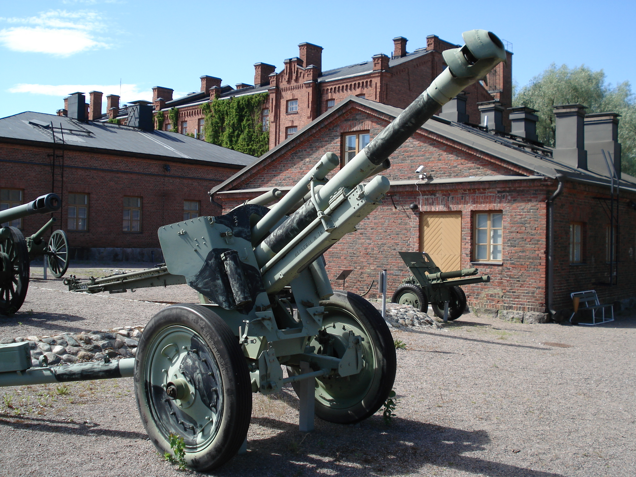 105 H/33-40 (105 mm howitzer model 1933-1940) (10,5 cm lFH 18/40), displayed in Hämeenlinna Artillery Museum. This howitzer was one of the mainstays of German artillery during World War II.